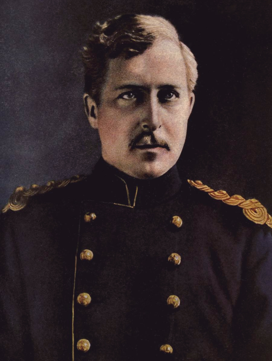 Hand-colored photograph of King Albert I of Belgium